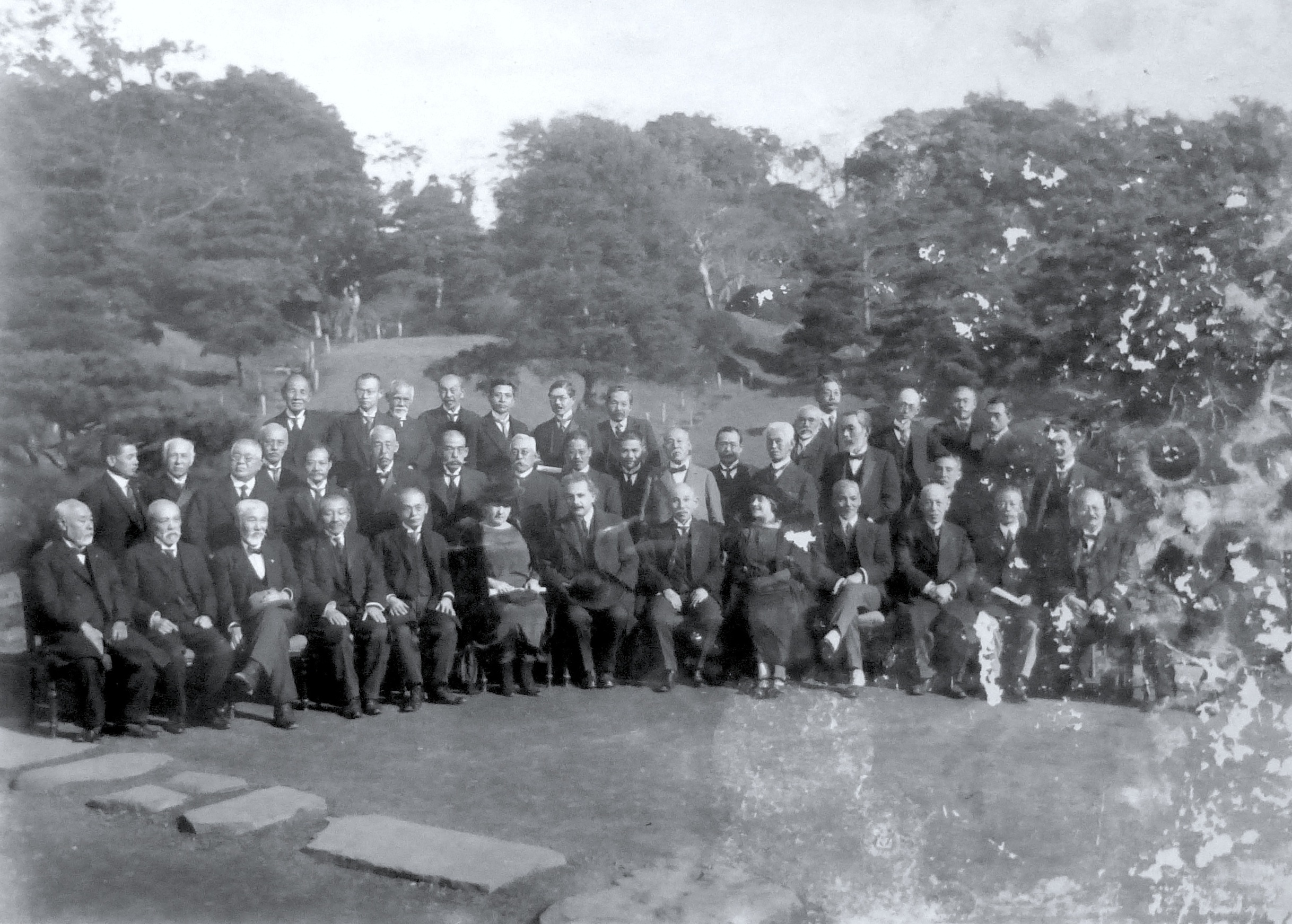 アインシュタイン博士歓迎記念写真 （左端は三宅秀[みやけ ひいず]）Commemorative dinner (in Japan) with Albert Einstein, Hiizu Miyake on the far left.